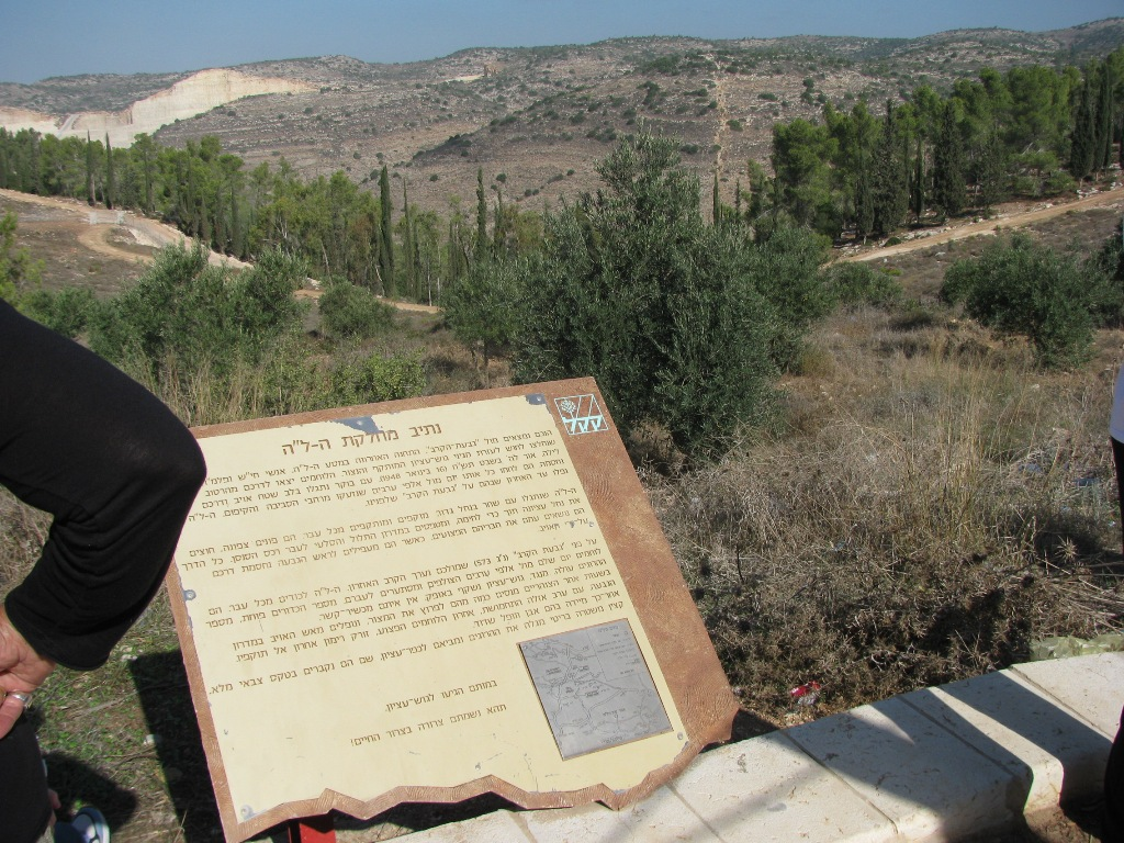 Observation on the hill of the battle